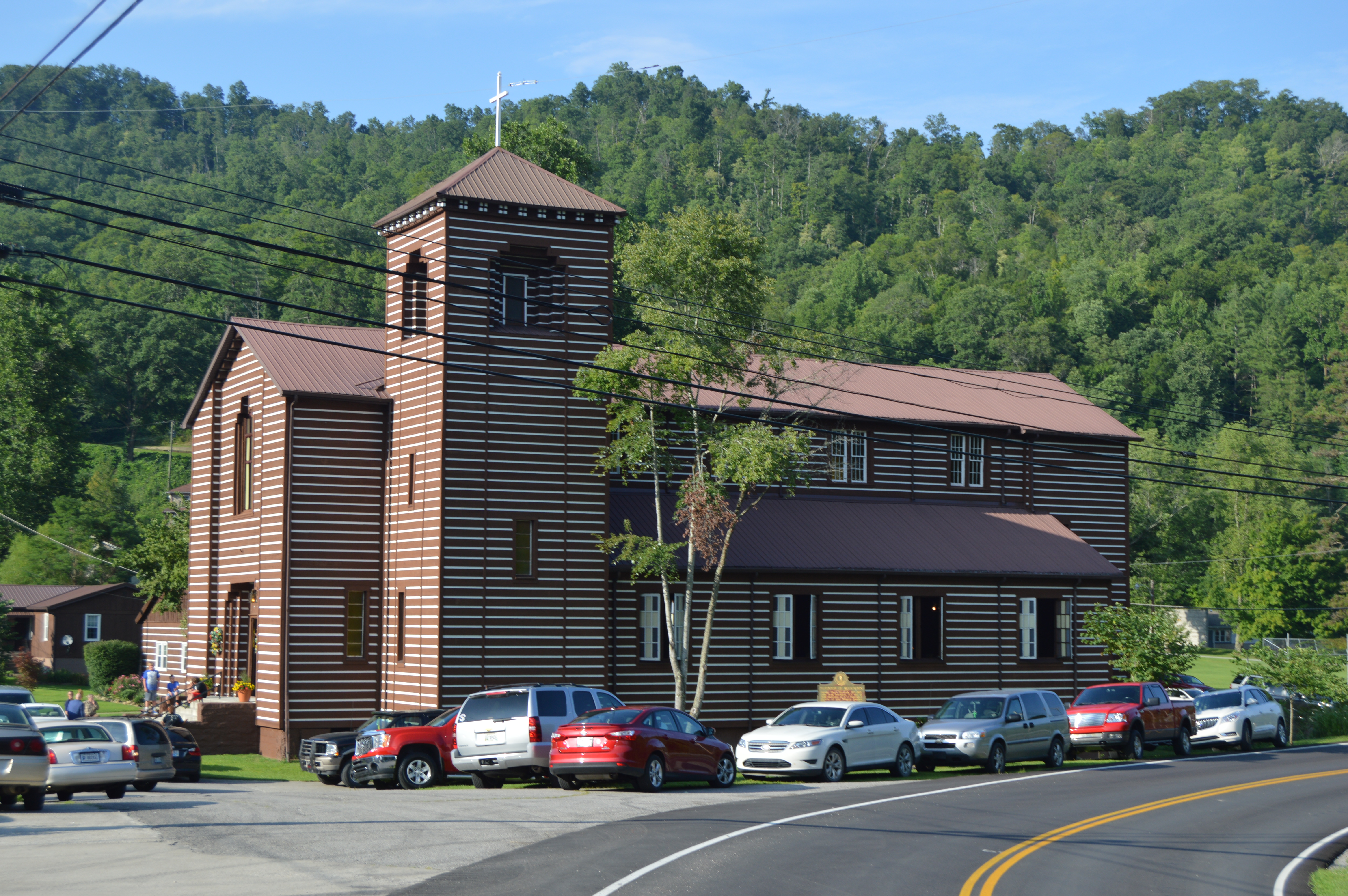 Southern side of the Buckhorn Presbyterian Church, located on Kentucky Route 28 in Buckhorn, Kentucky, United States. Built in 1927, it is listed on the National Register of Historic Places.